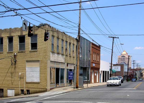 Salem Avenue-Roanoke Automotive Commercial Historic District listed on the National Register of Historic Places in Roanoke, Virginia, USA